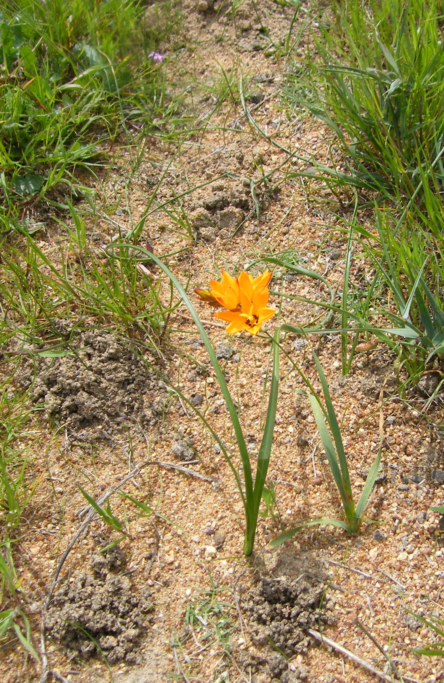 Darling Western Cape